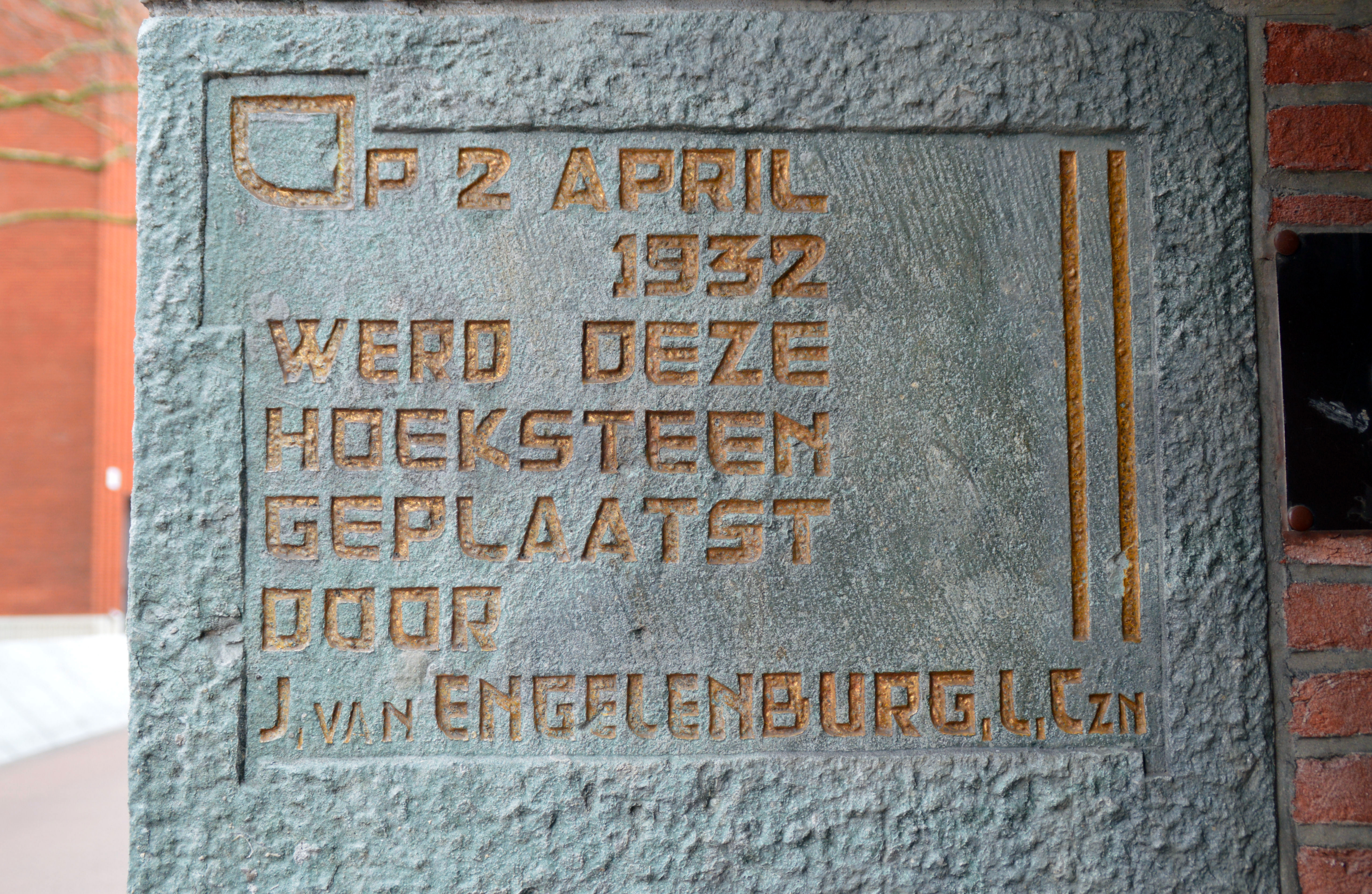 First (corner) stone Chamber of Commerce Marienburg 88-92 On 2 April 1932 this cornerstone was placed by Jan van Engelenburg, L, C and Charles Estourgie De Stijl